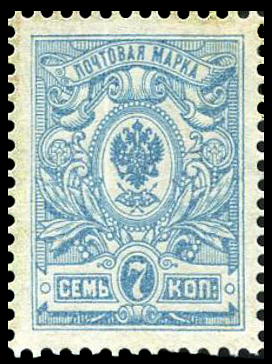 Russia stamps, 1908, 7 k. «Three pearls»